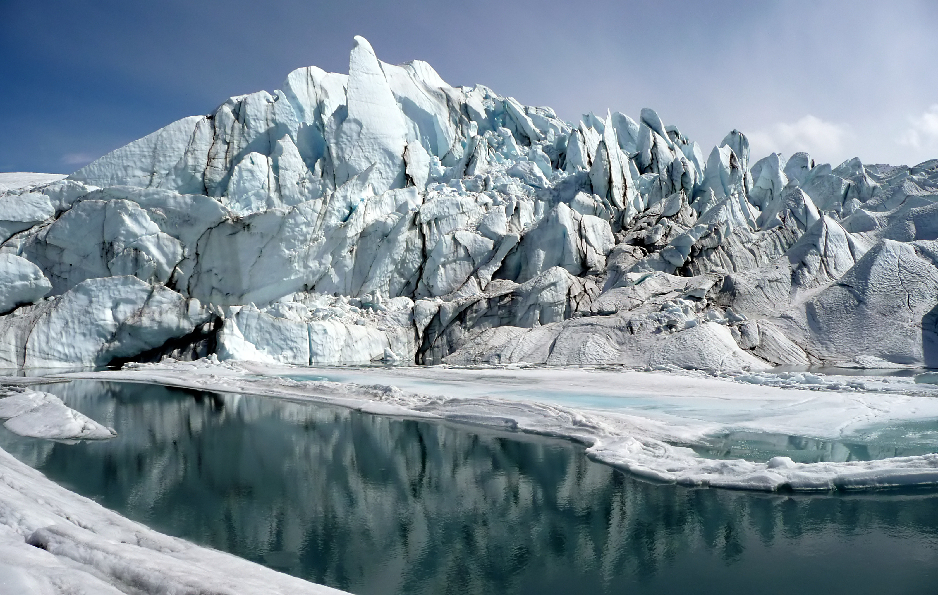 Mouth of the Matanuska Glacier in Alaska.